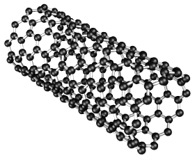 Rendering of a zigzag Carbon Nanotube